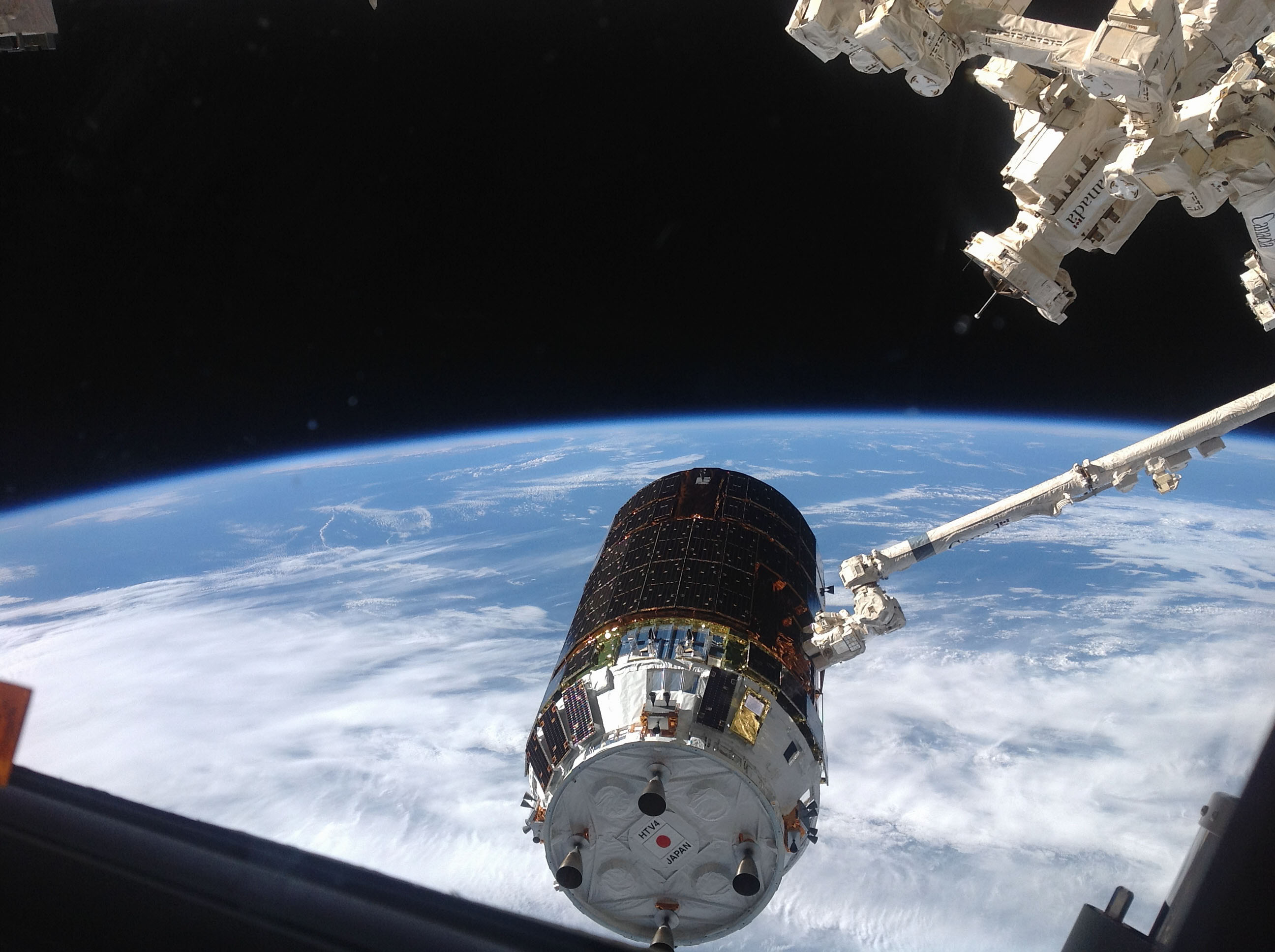 The International Space Station's Canadarm2 grapples the unpiloted Japanese "Kounotori" H2 Transfer Vehicle-4 (HTV-4) as it approaches the station, and will attach it to the Earth-facing port of the station's Harmony node. The HTV-4 is delivering 3.6 tons of science experiments, equipment and supplies to the orbiting complex. Earth's horizon and the blackness of space provide the backdrop for the scene.